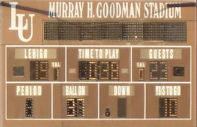 American Football Scoreboard: The final score of the 2005 rivalry game between Lehigh and Lafayette, the most played college football rivalry. Lafayette won on a Hail-Mary pass with 35 seconds left in the 4th quarter. The game was played at Lehigh's Goodman Stadium.